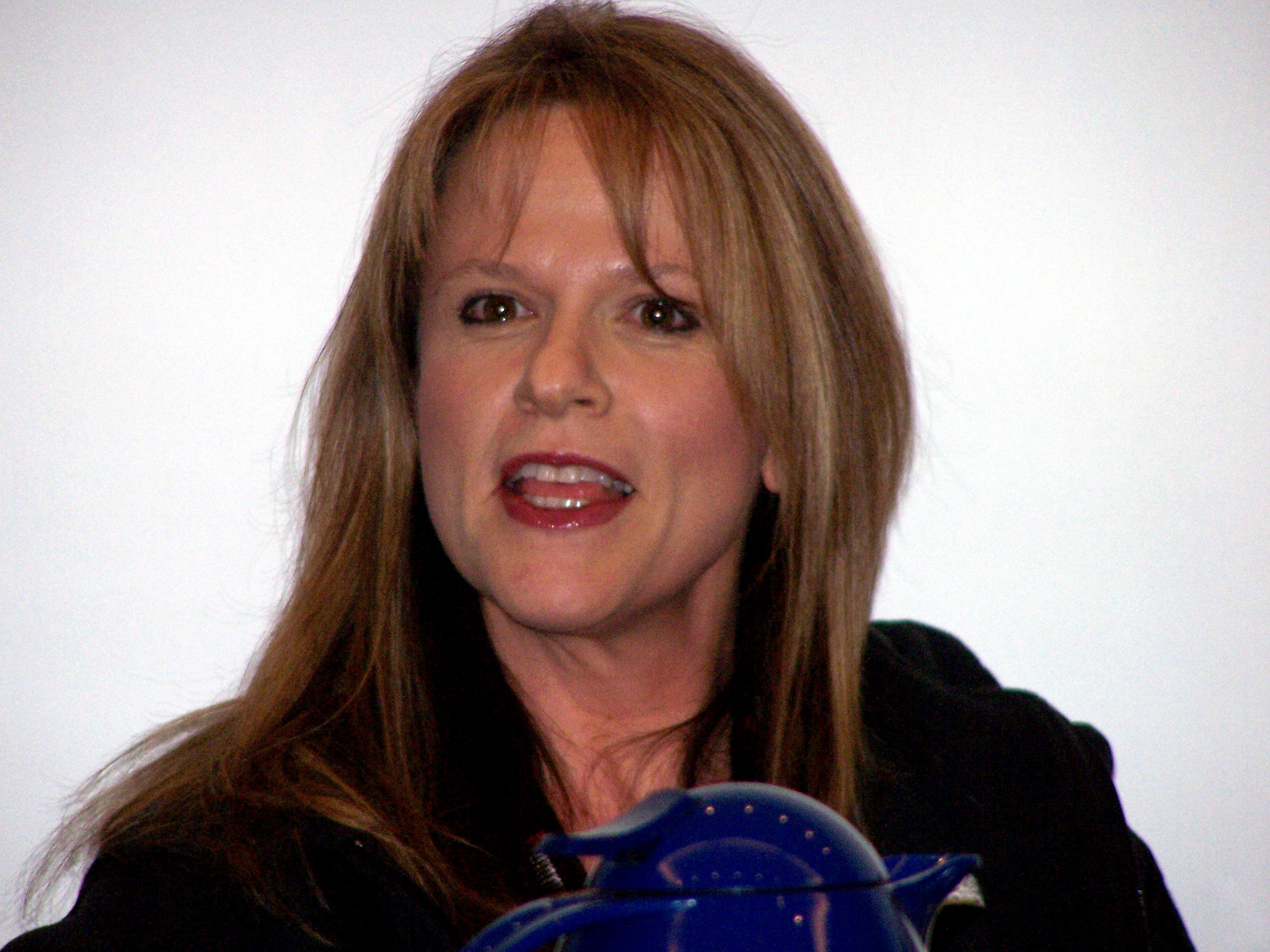 Miriam Stockley at the Nokia Night of the Proms in December 2006 in Frankfurt am Main